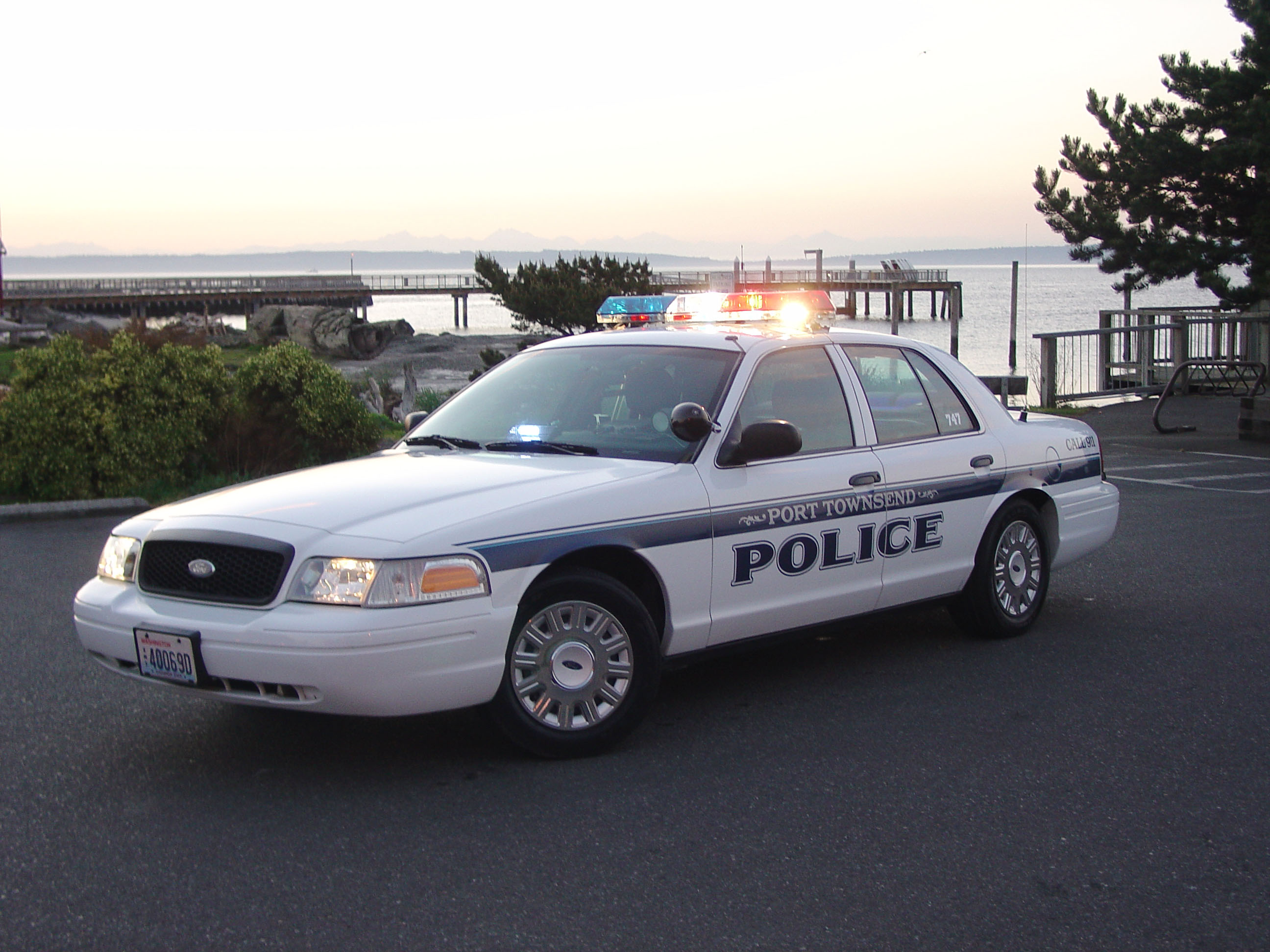 Port Townsend Police Department 2004 Ford Crown Victoria Police Interceptor